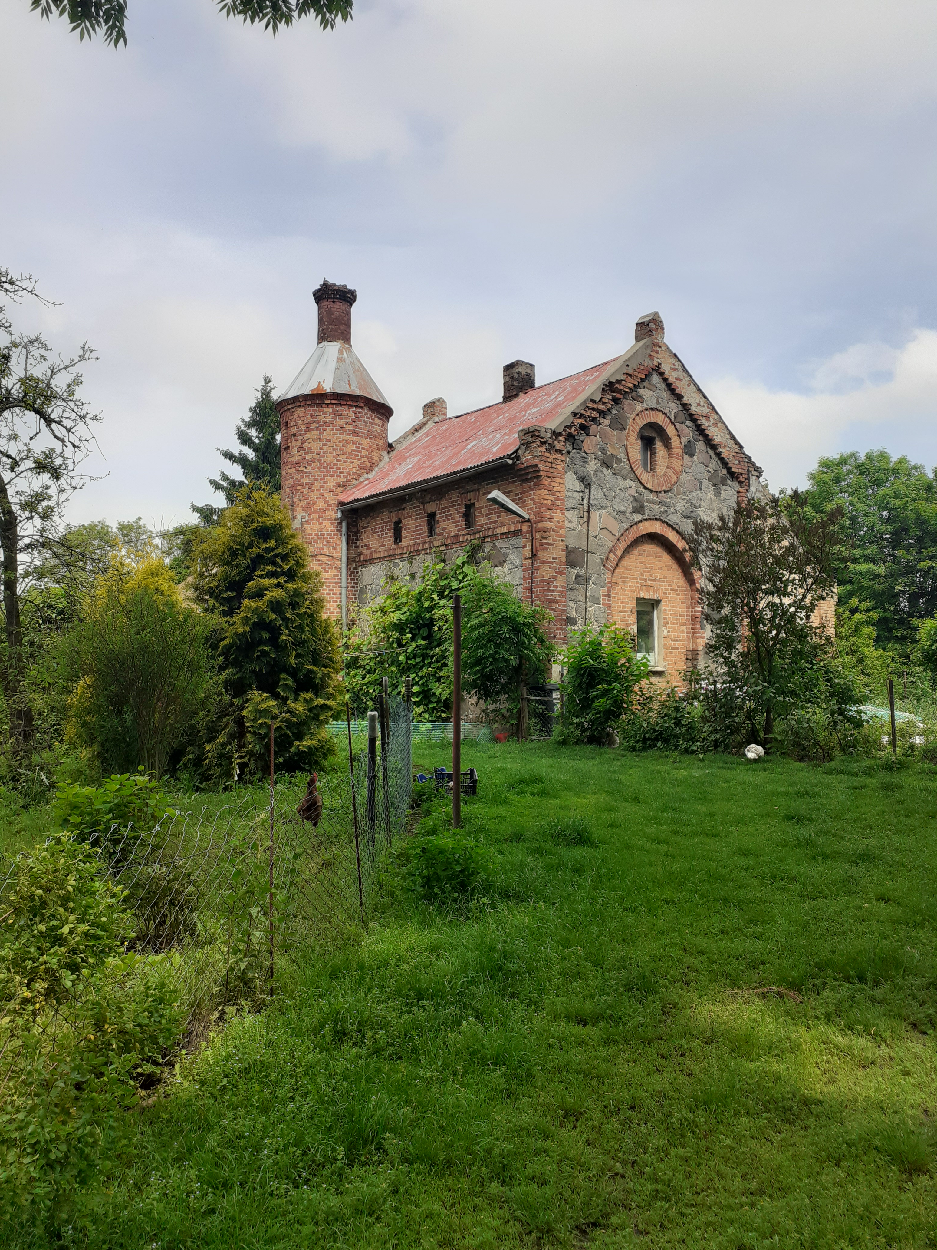 Stara gorzelnia